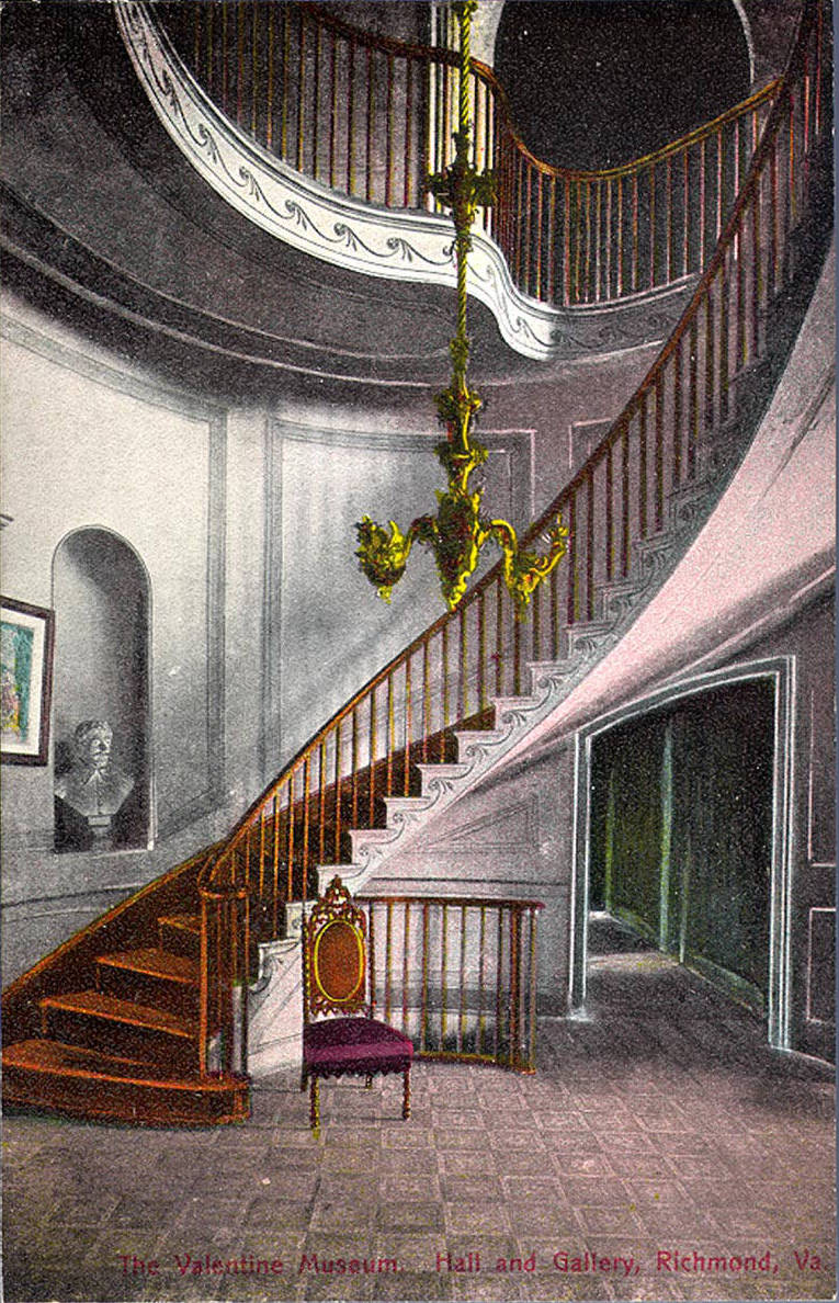 Description: No published or copyright date listed on postcard. Date Postmarked: Not postmarked. Rights: This item is in the public domain. Acknowledgement of the Virginia Commonwealth University Libraries as a source is requested. Reference URL: Collection: Rarely Seen Richmond: Early twentieth century Richmond as seen through vintage postcards